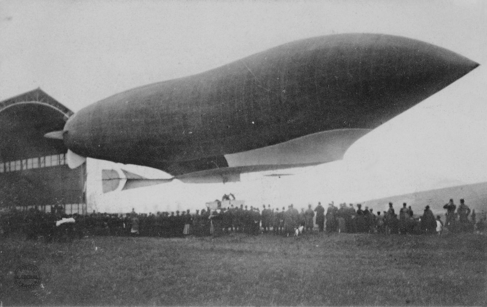 The Patrie is shown leaving its hanger in Verdun, France on 29 November 1907. The French dirigible "Patrie", (first flight 1906, last flight 1907) was scanned in from a monochrome postcard which bears the name of neither the author nor the publisher.